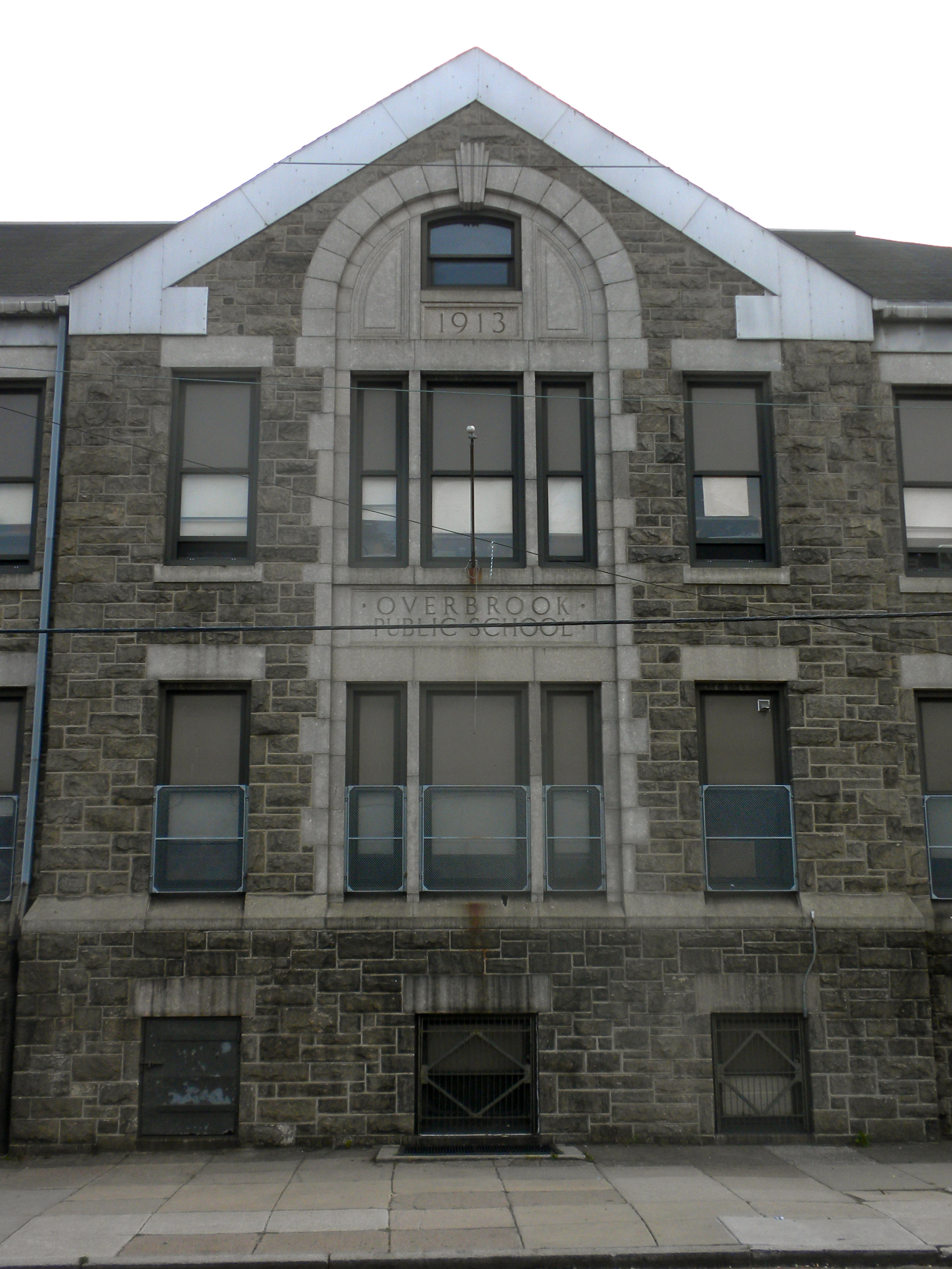 Overbrook School on the NRHP since November 18, 1988. At 2032 North 62nd Street in Overbrook neighborhood of West Philadelphia. Built in 1913. Not to be confused with Overbrook High School a couple of blocks east, or Overbrook School for the Blind a couple of blocks west.